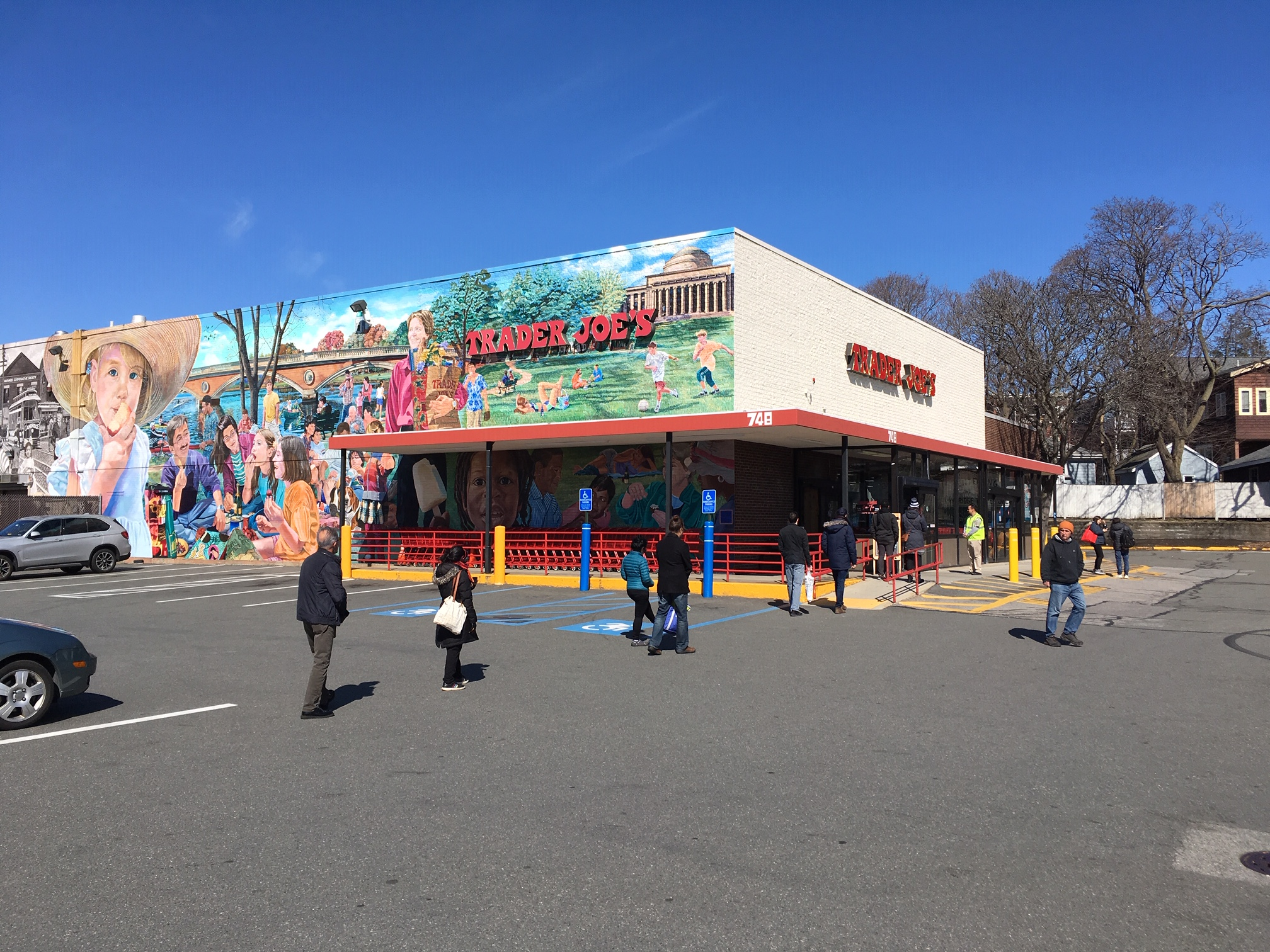 Image taken in the parking lot of the Trader Joe's in Cambridgeport, Cambridge, Massachusetts on March 21, 2020 with enforced social distancing in-effect for shopper during the global Covid-19 coronavirus pandemic.